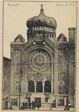 Photo of B'nai Abraham, April 1910, as published in the Philadelphia Record.